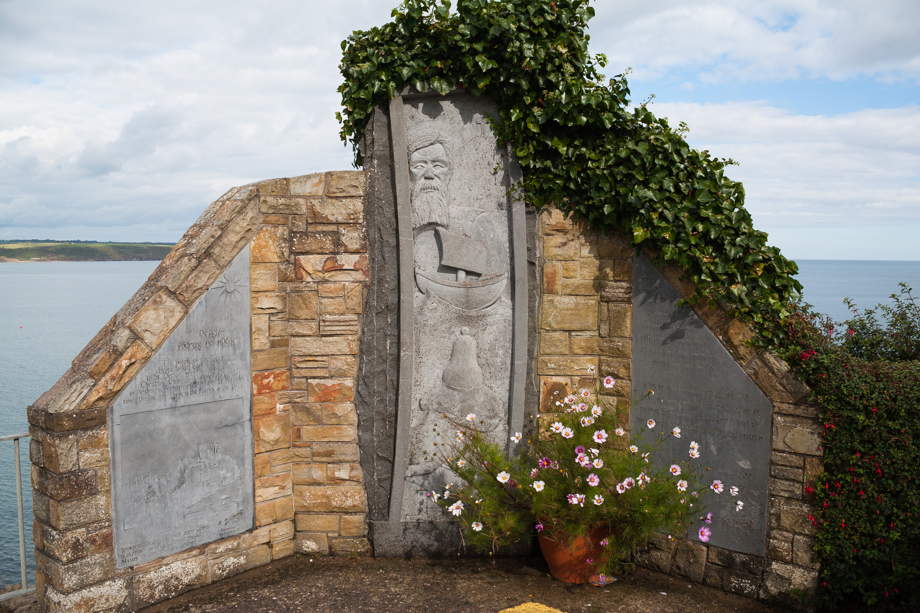 Sculpture dedicated to St Declan by the Youghal sculptor Turlough Cowman, created in 2000.